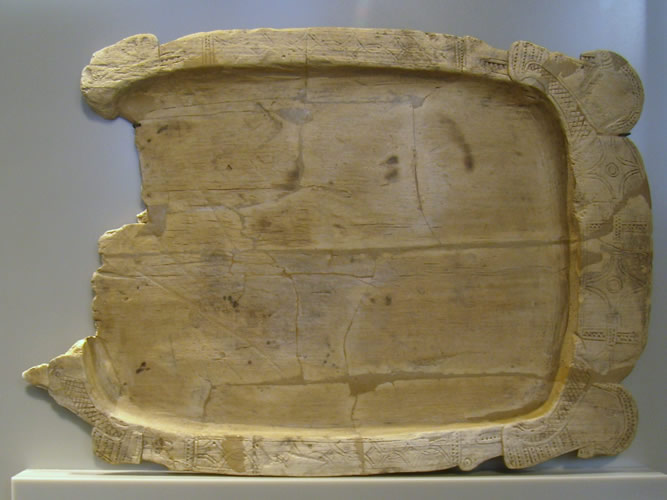 Decorated wooden board found in a Slavonic town in Spandau, Berlin